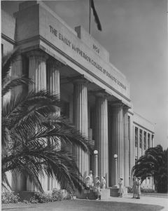 Historic image of RMIT's Emily McPherson College.